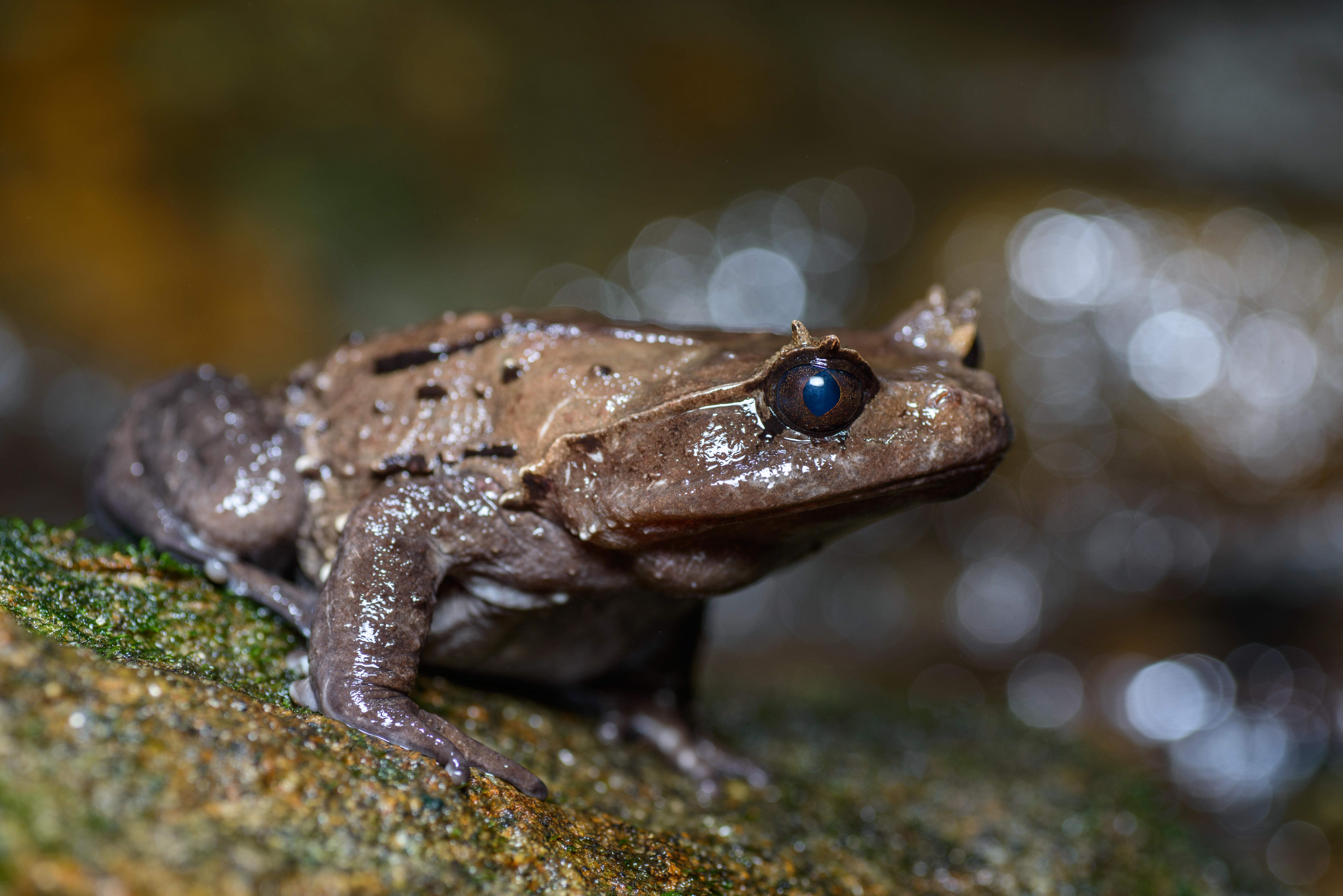 Brachytarsophrys carinense, Burmese horned frog - Khao Sok National Park. Photo by Thai National Parks